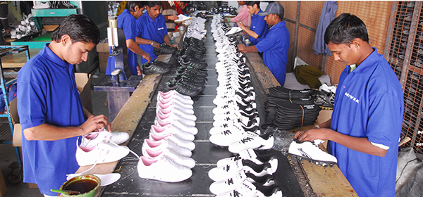 Nivia started manufacturing Sports Footwear in the 1980s